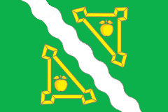 Flag of Grigorevskoe rural settlement, Krasnodar Territory, Russia